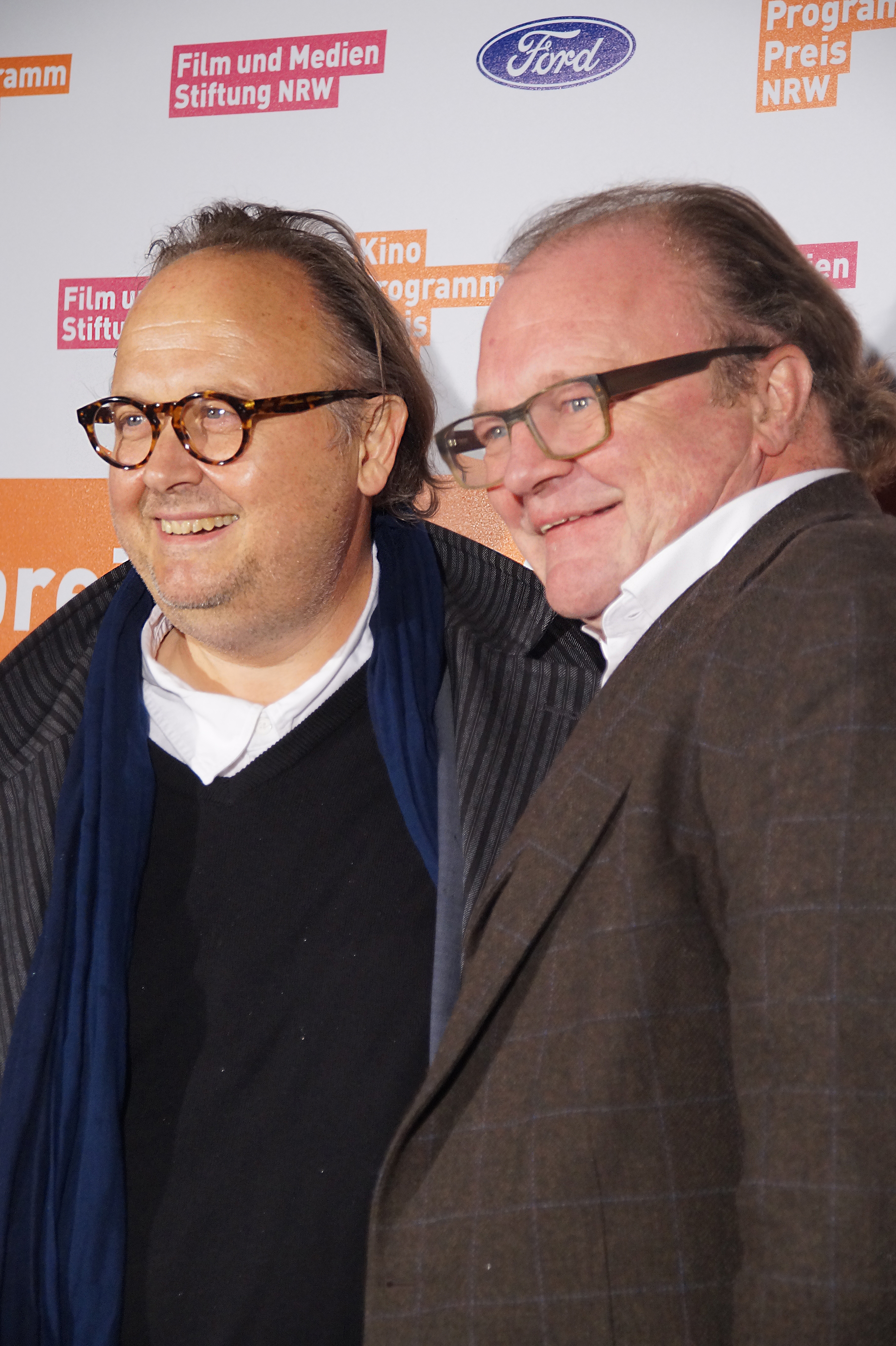 Verleiher Christoph Ott (NFP) mit Produzent Stefan Arndt (X FIlme) beim NRW Kinoprogrammpreis, November 2016, Köln.